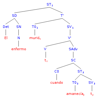 Sintactic tree for a complex sentence, with a subordinate clause ...cuando amaneció 'at dawn'